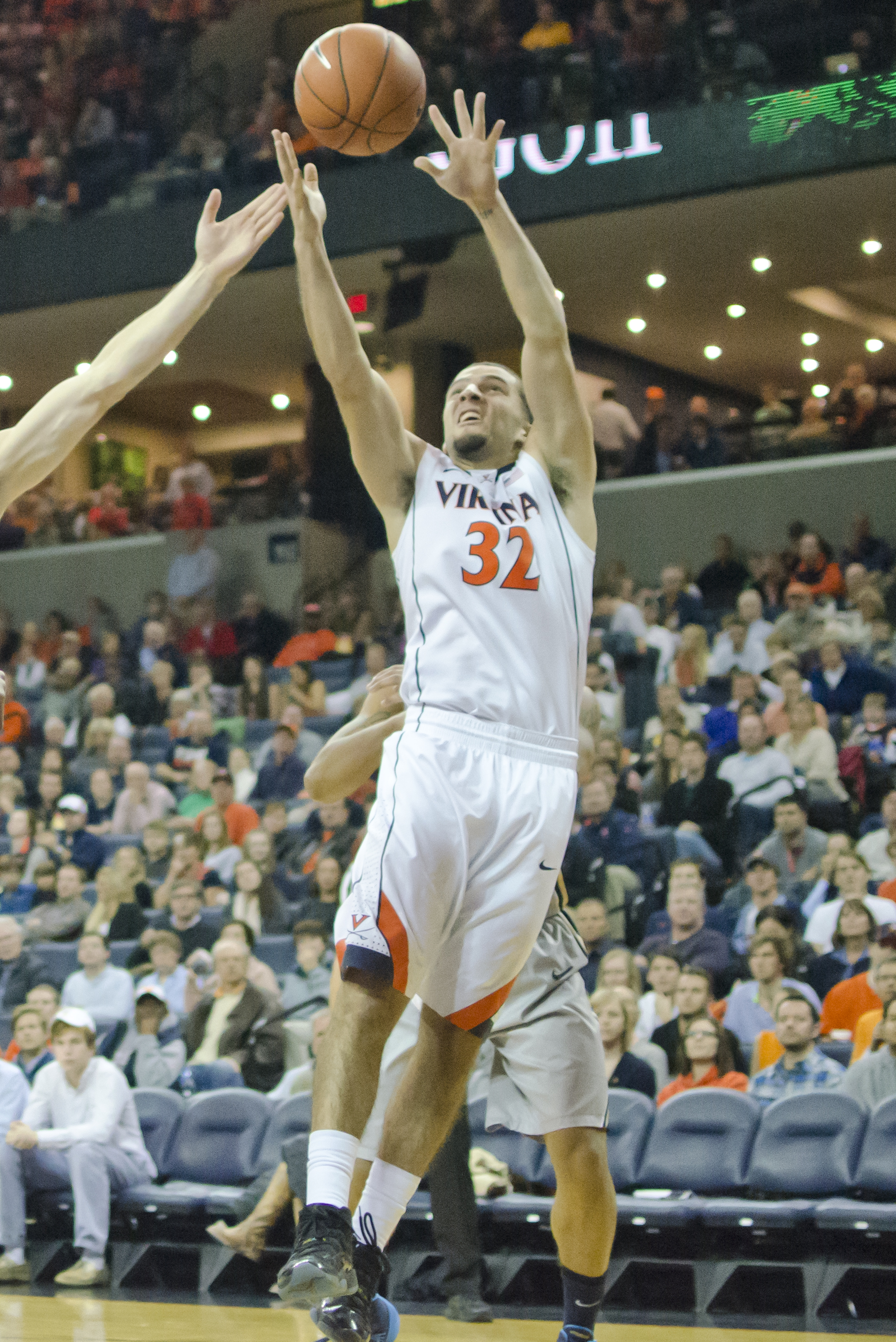 London Perrantes rebounding for Virginia